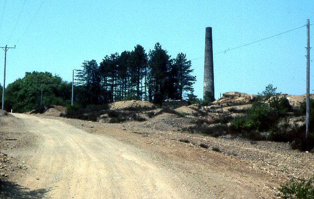 Former Devon Gt Consols mine 1978. Photograph taken of the chimney stack marked on OS maps and probably the location of former Wheal Anna Maria at Devon Gt Consols Mine, Blanchdown Wood near Gunnislake. The chimney was probably part of an arsenic flue, hence the lack of vegetation in 1976.